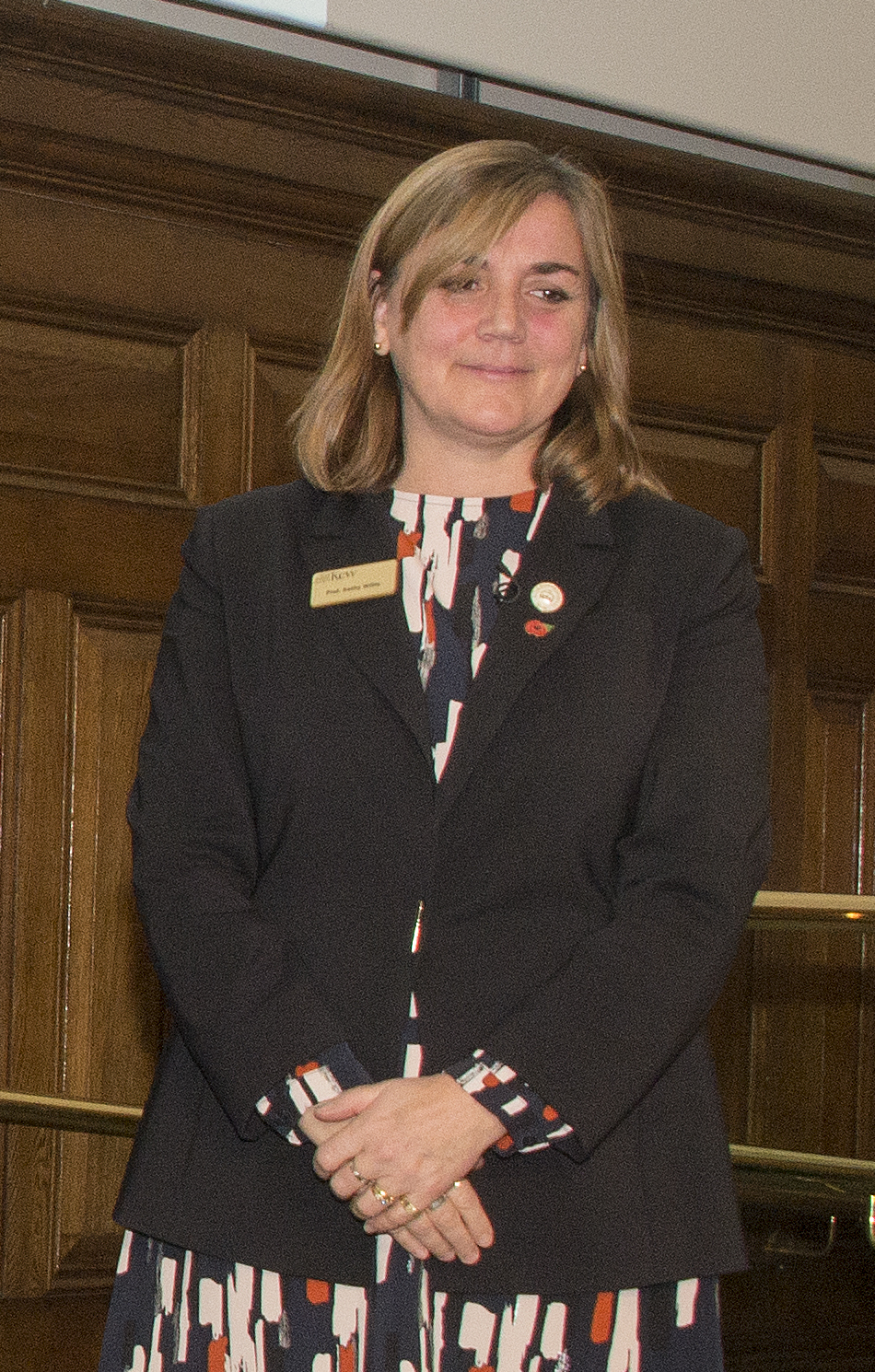 Richard Deverell, Director of Royal Botanic Gardens, Kew, President Santos of Colombia and Prof. Kathy Willis, Director of Science at Kew during the 2017 lecture in London.